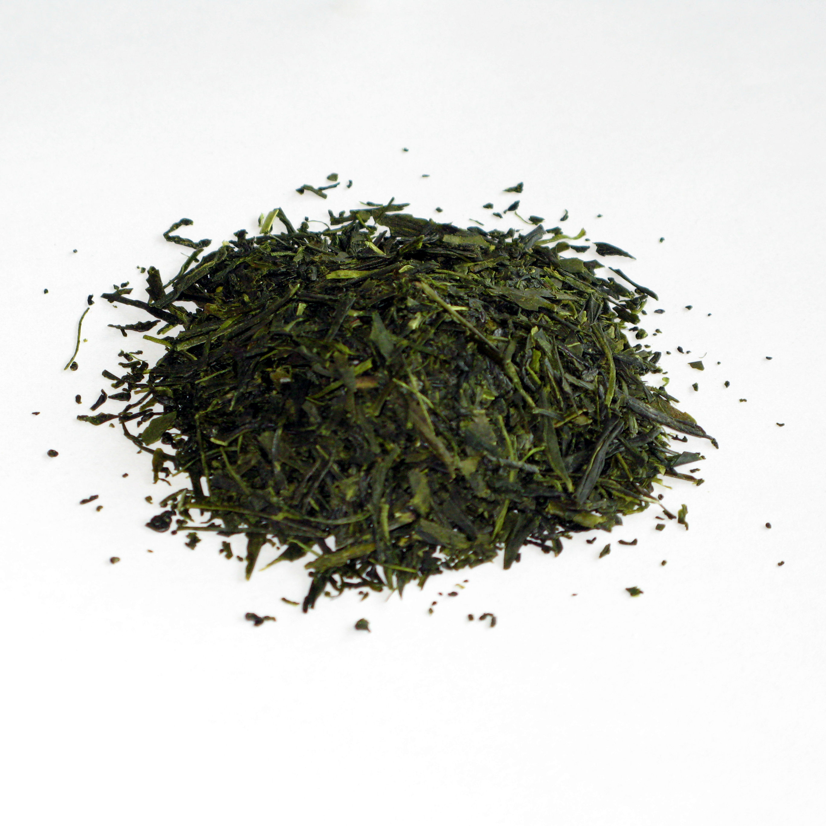 Sencha tea